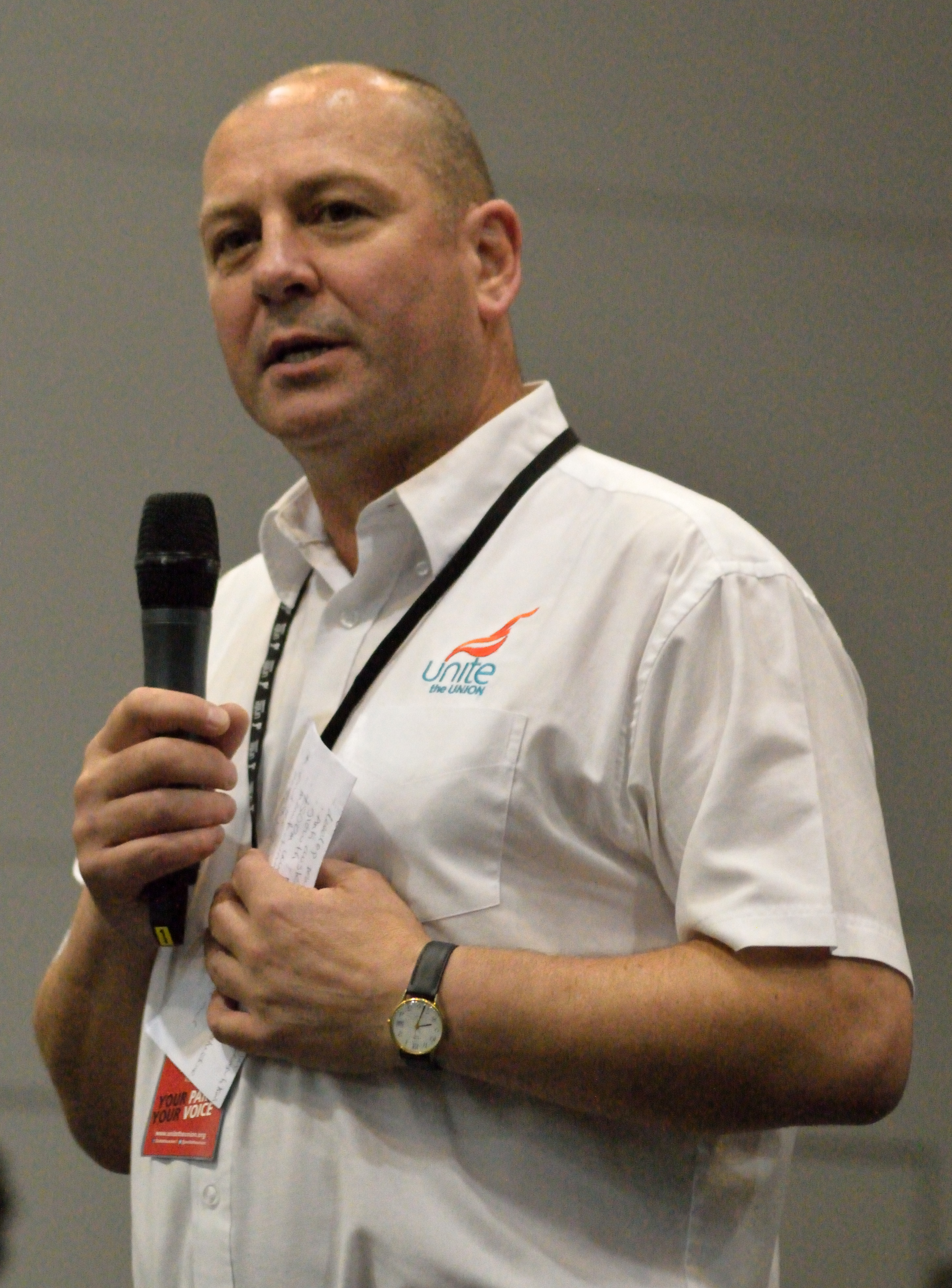 Steve Turner. Assistant General Secretary of Unite the Union, at the 2016 Labour Party Conference in Liverpool, speaking at a fringe meeting organised by Labourlist.